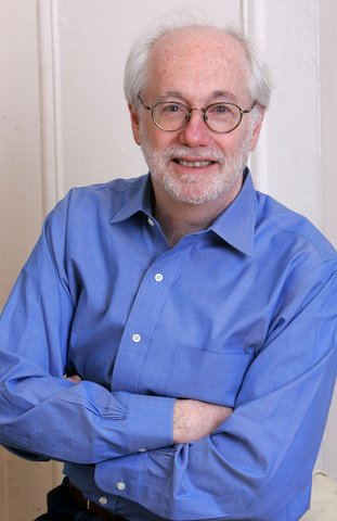 Publicity photograph of David Nasaw, by Audrey Tiernan